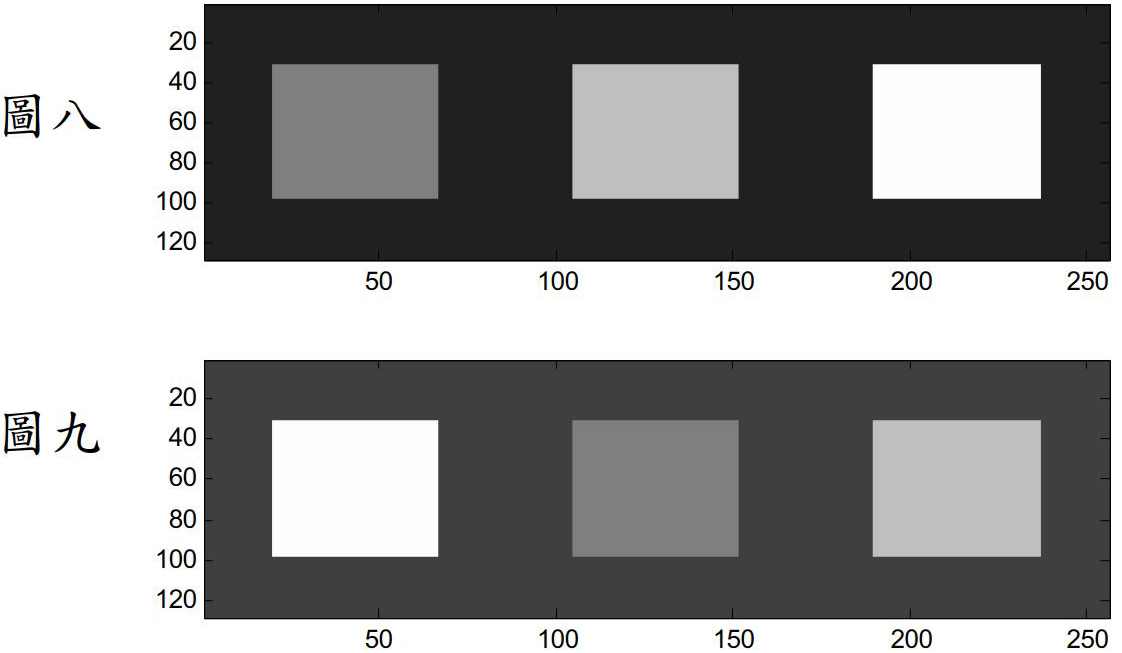 NRMSE comparision - same photo with different shadow effect